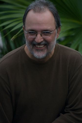 composer, sound artist, sfca, isaw, subtropics, listening gallery, audiotheque, punto